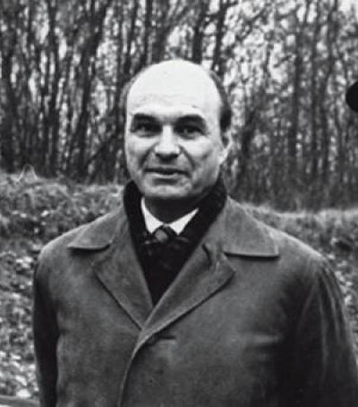 The Italian businessman Carlo Pesenti (1907-1984) in the winter or 1958